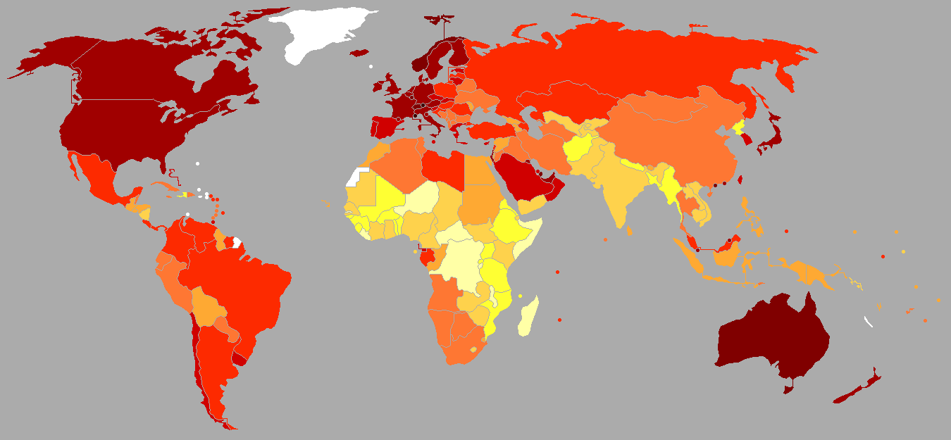 Gross domestic product per capita (nominal) 2013